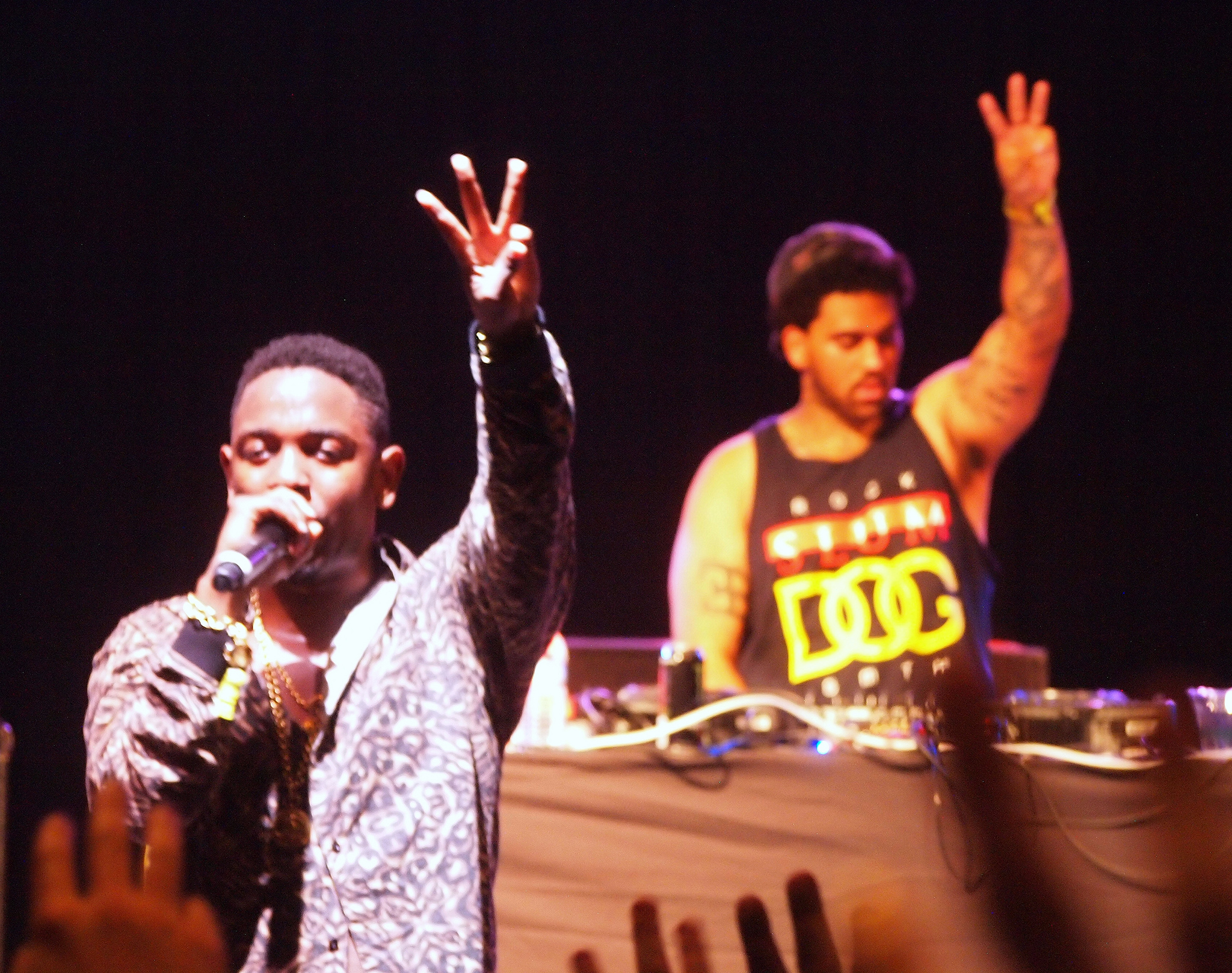 Kendrick Lamar performs Thursday night at Bonnaroo in Manchester, Tennessee.